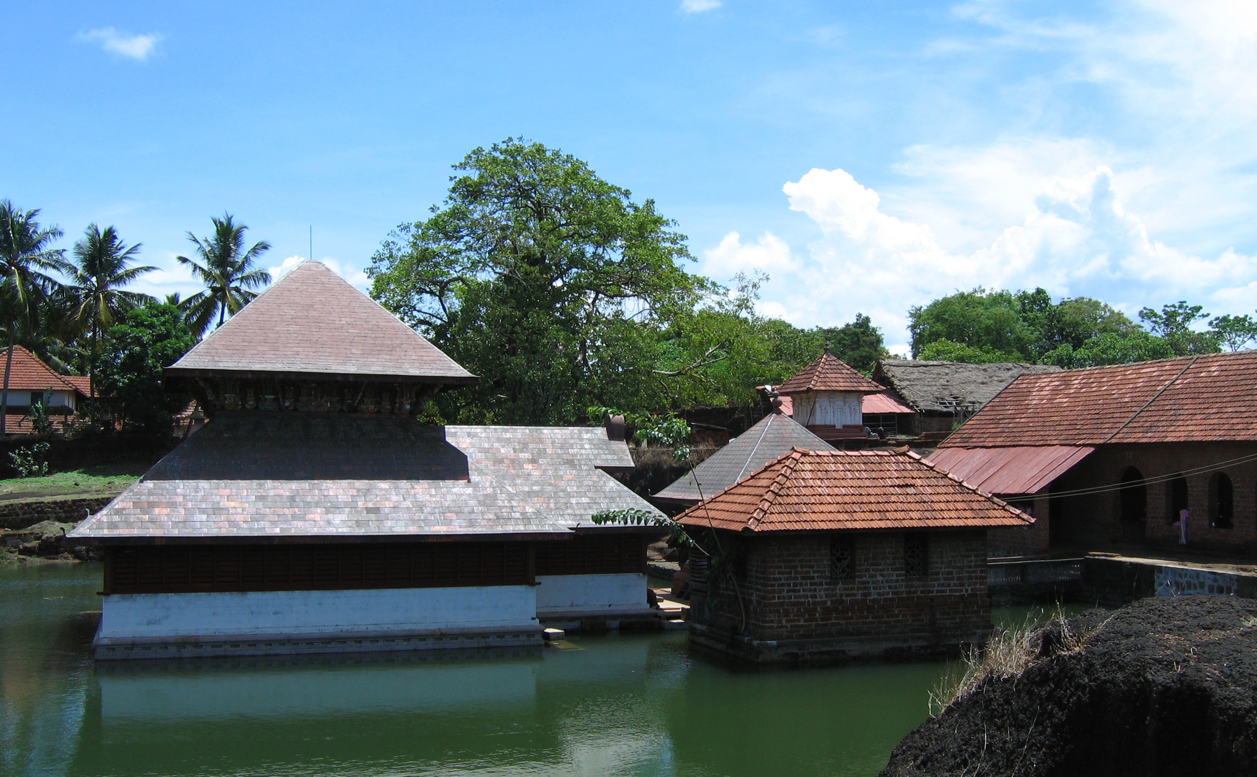 Ananthapura temple Kasaragod